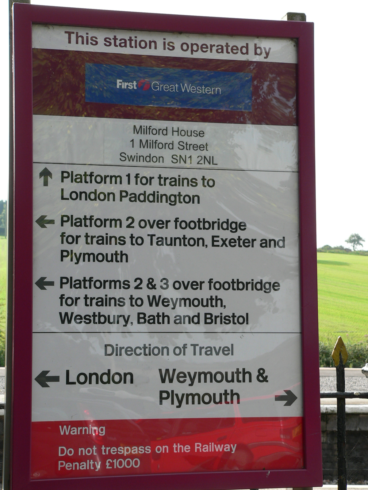 The service information poster by the entrance to Castle Cary railway station in Somerset. Although the station has been operated by First Great Western (FGW) since April 2006 (5 months before the photo was taken), the maroon colour shows that it is the same poster used by predecessor train operating company Wessex Trains with FGW branding.